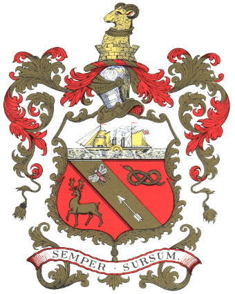 The coat of arms of Barrow-in-Furness Borough Council